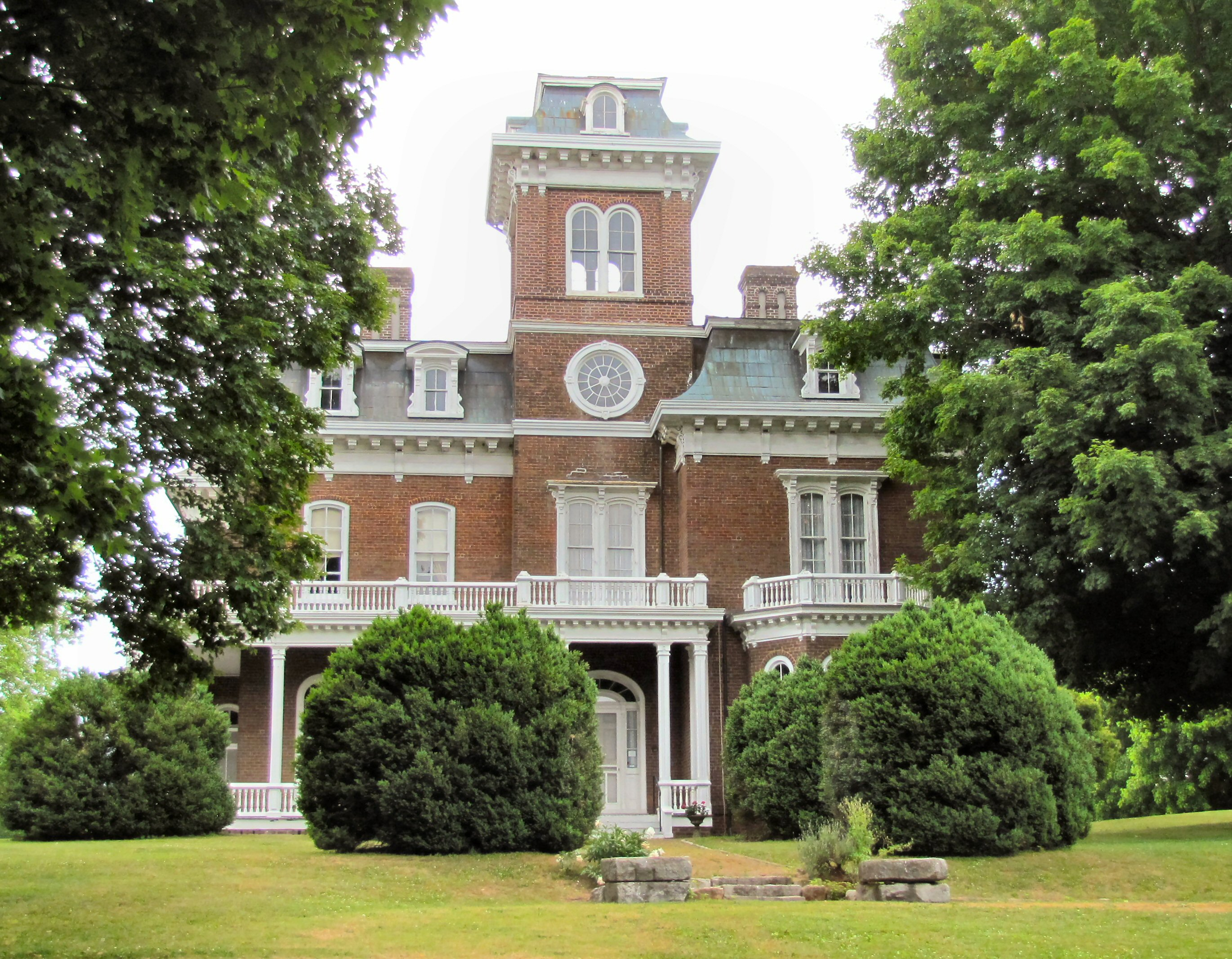 Glenmore in Jefferson City, Tennessee, United States. Completed in 1869, this house is now maintained by the Association for the Preservation of Tennessee Antiquities, and is listed on the National Register of Historic Places.